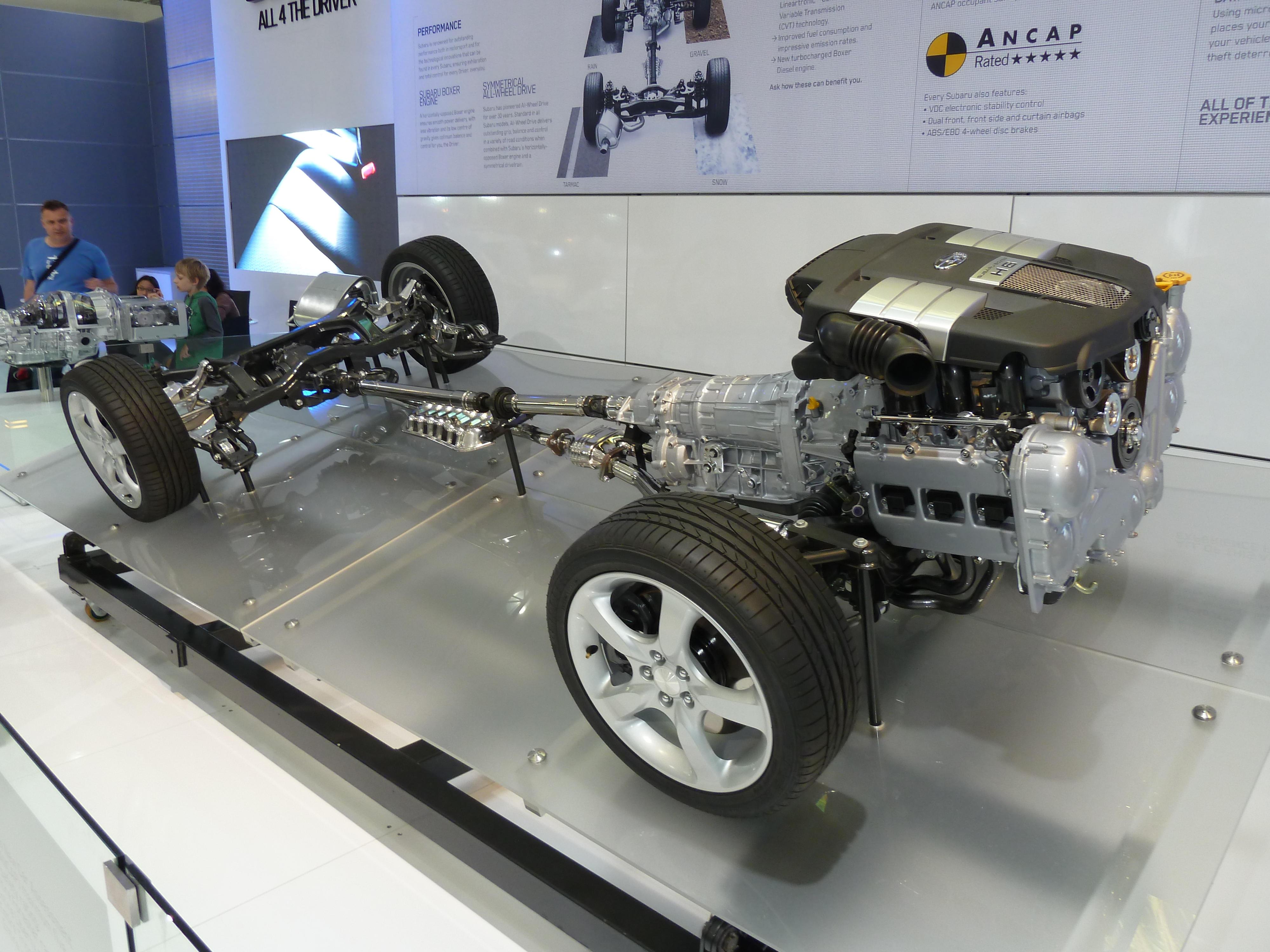 Subaru Liberty powertrain. Photographed at the 2010 Australian International Motor Show, Sydney, New South Wales, Australia.